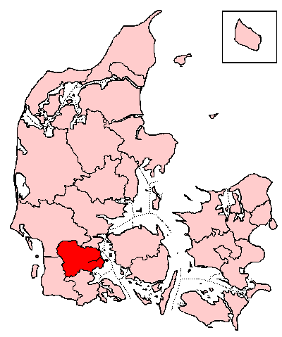 Map of Haderslev County 1793-1970